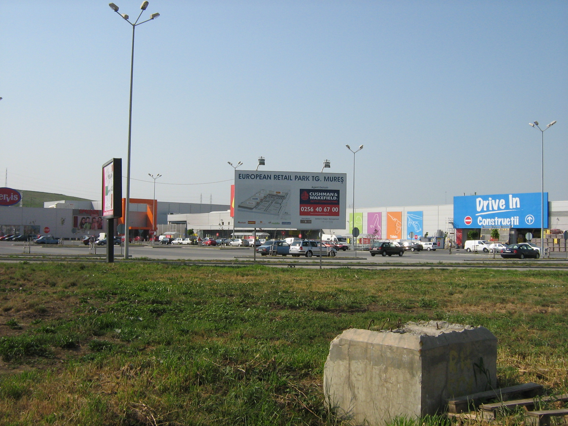 The European Retail Park in Târgu Mureş